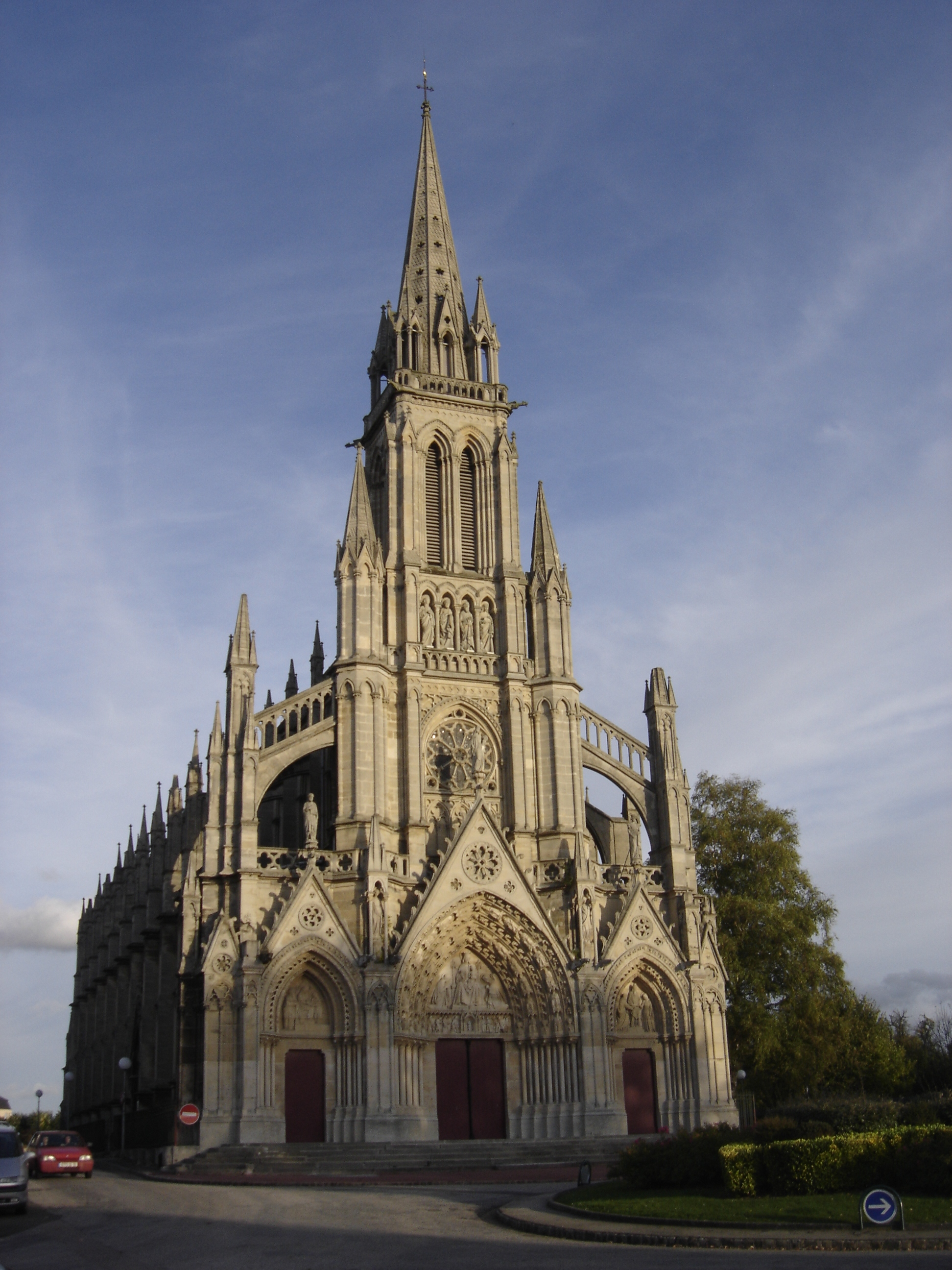 Basilique Notre-Dame de Bonsecours - Seine-Maritime - France